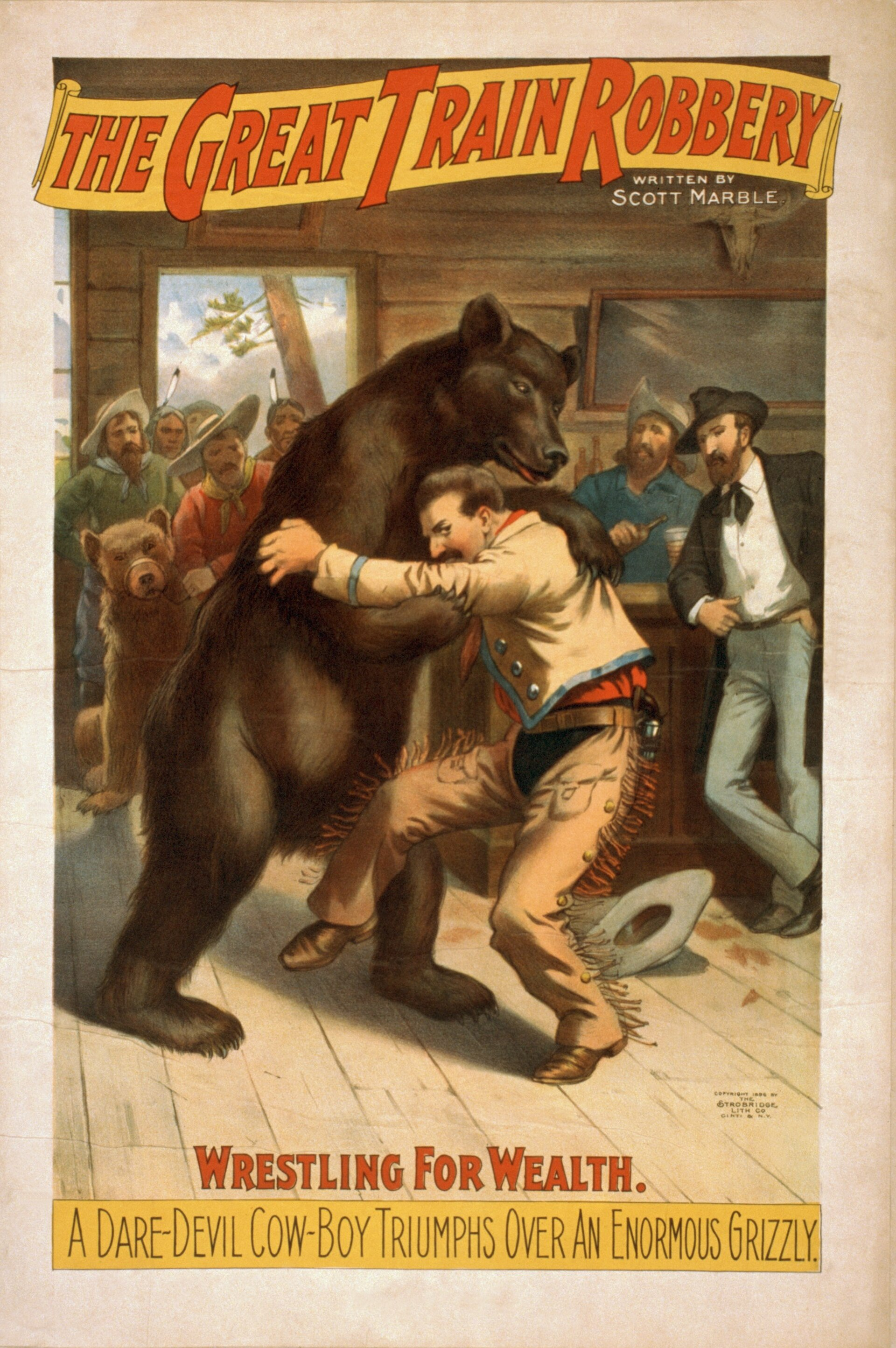 Title: The great train robbery written by Scott Marble. Abstract/medium: 1 print : color lithograph ; sheet 75 x 50 cm. (poster format)